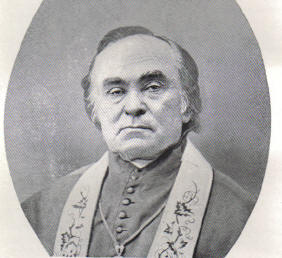 John Baptist Purcell (February 26, 1800-July 4, 1883). Bishop of Cincinnati from 1833 until his death in 1883.